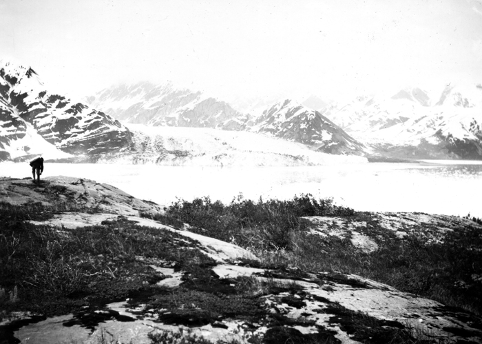 Alaska Glaciers. Turner Glacier, which is north-northeast of Yakutat in the St. Elias Mountains, viewed from Haenke Island in Disenchantment Bay. Harriman Expedition, June 22, 1899.